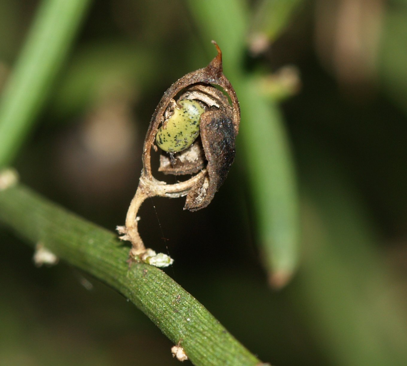 Carmichaelia arborea ripe pod, with dried hull and seed. From Botanical Garden (Flora) of Cologne, Germany.